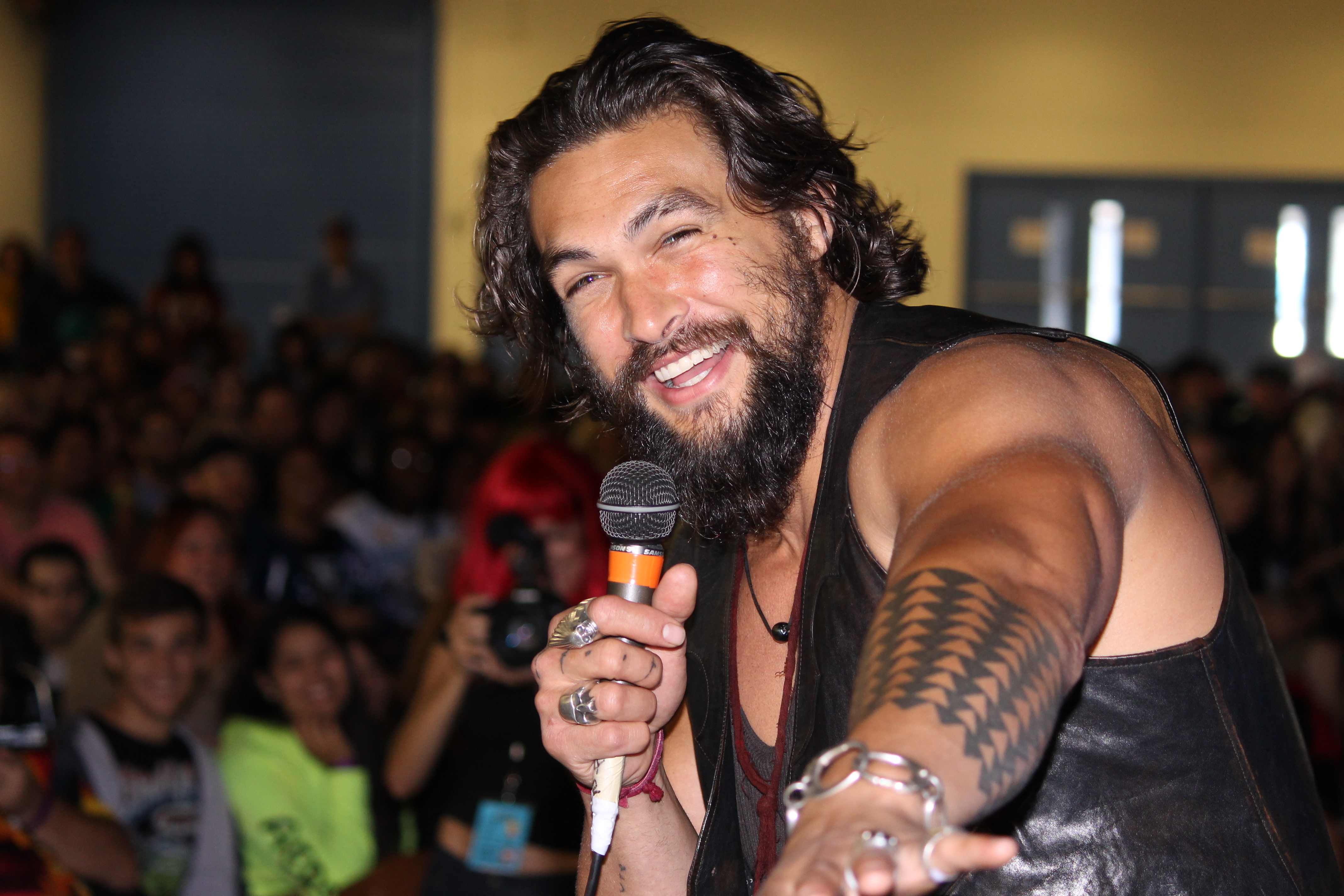 Jason Momoa, Florida Supercon 2014